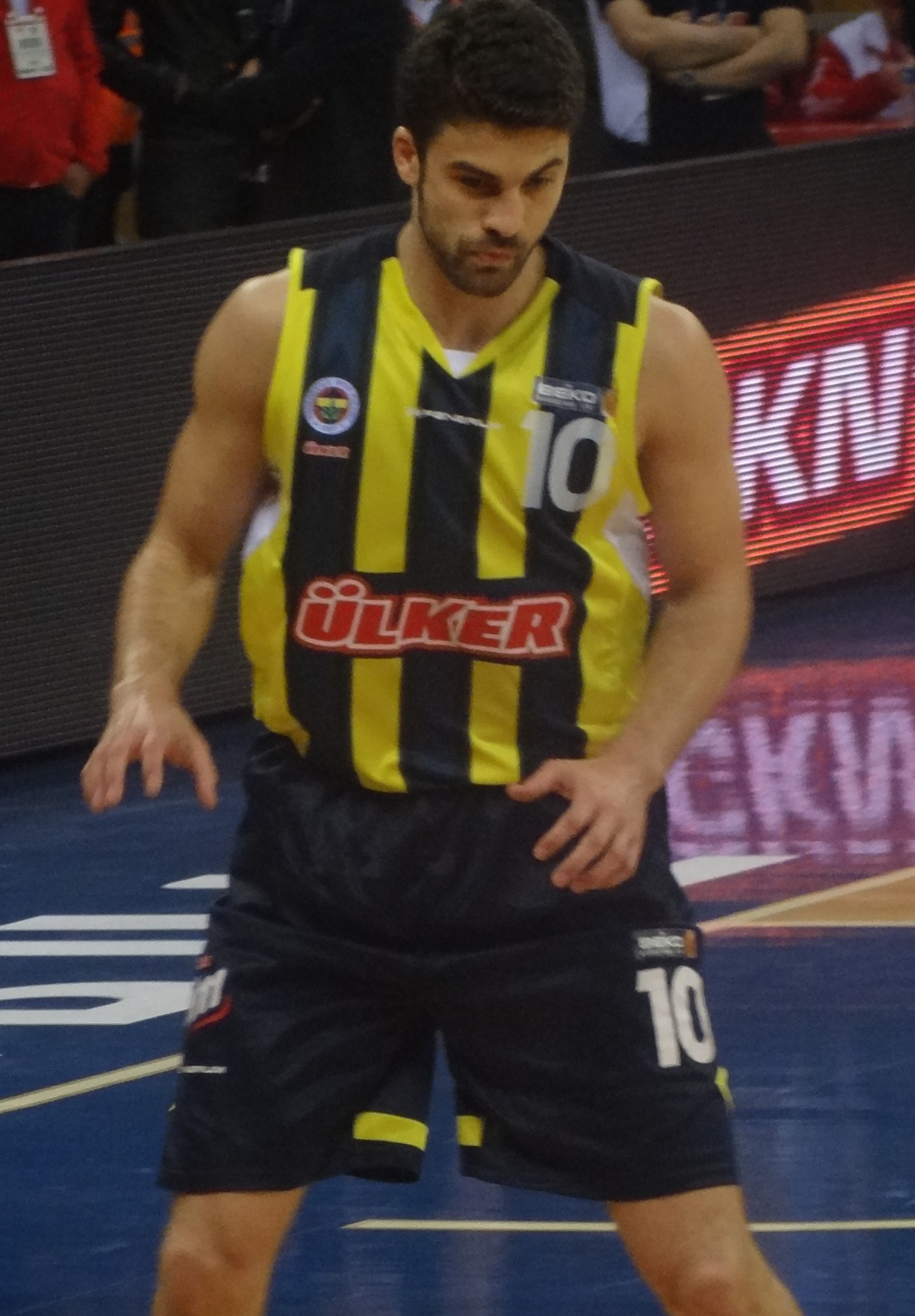 Galatasaray-Fenerbahce match